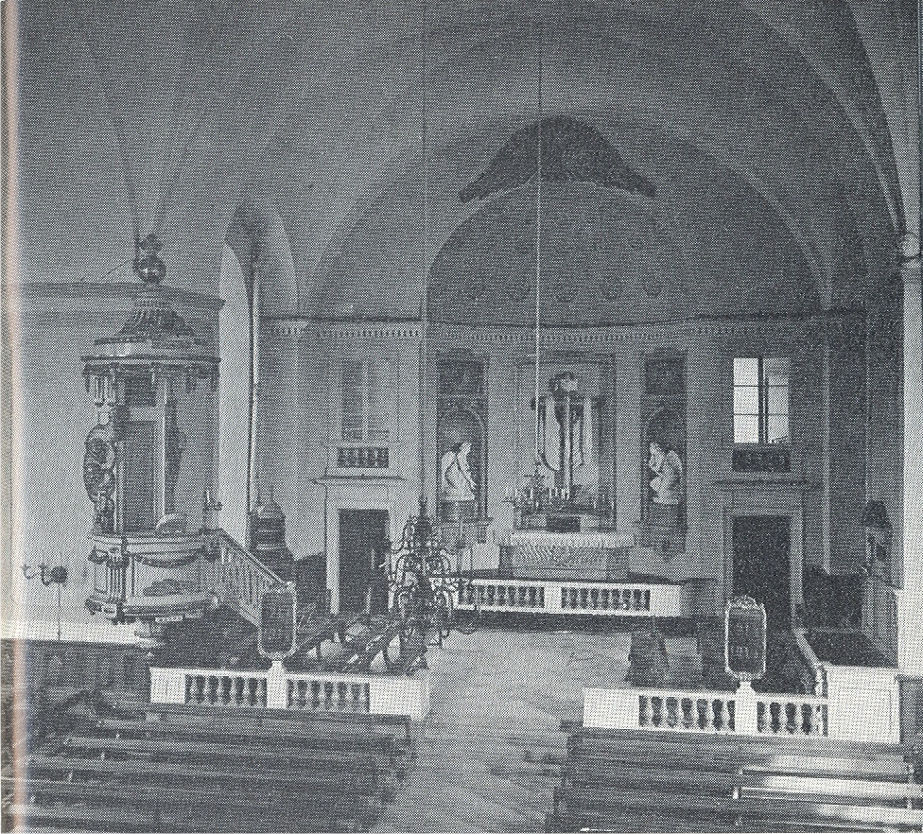 The interior of the cathedral of Karlstad before the year of 1915 (around 1880).